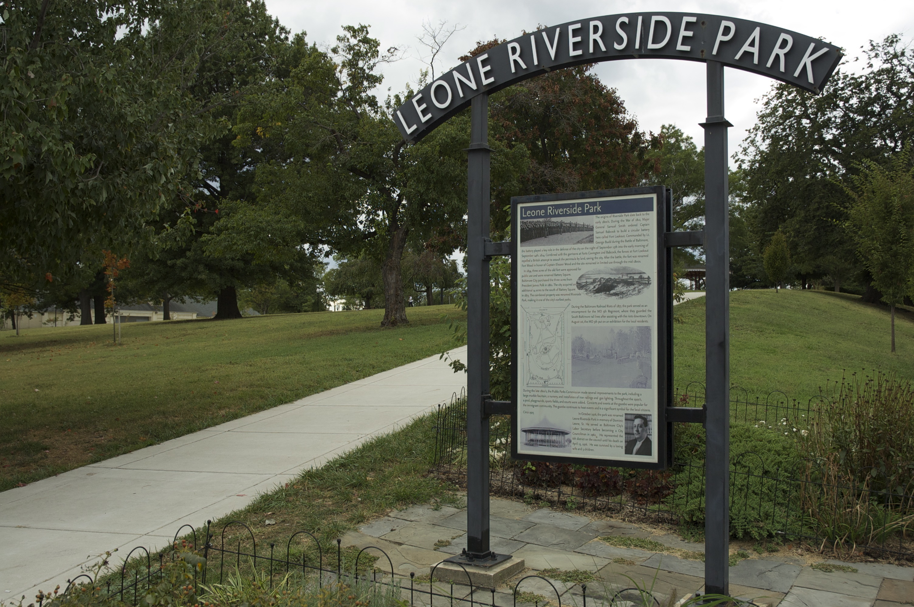 The main entrance to Leone Riverside Park in Baltimore MD, at the corner of Randall and Covington Streets, looking southwest.